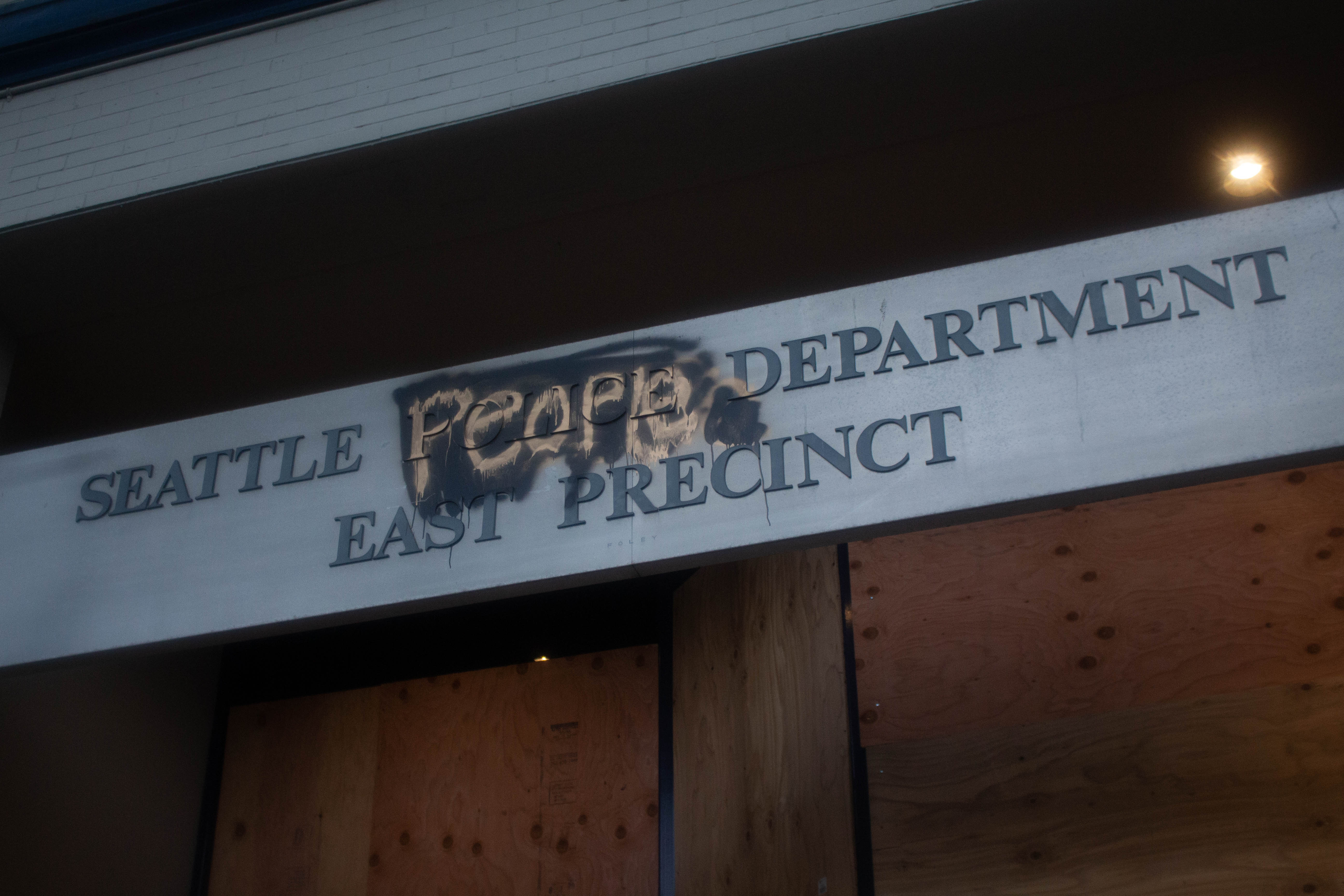 The entrance sign former Seattle East Precinct in the Capitol Hill Autonomous Zone in Seattle, WA on June 9, 2020. The word "police" is covered up with "People's"